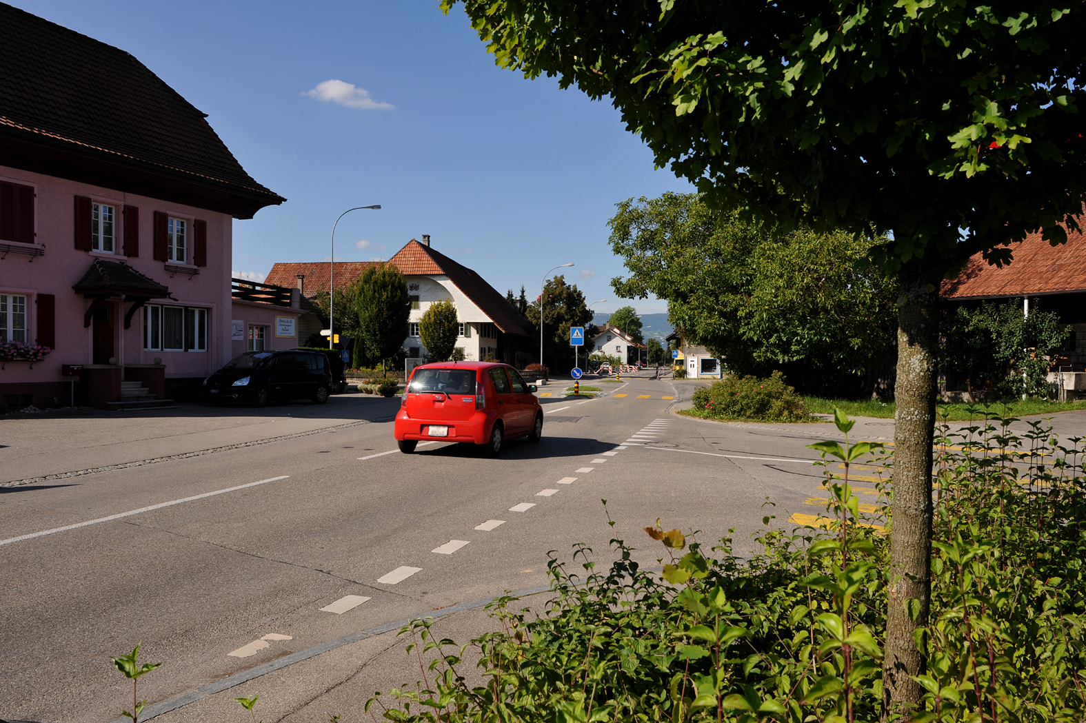 Centre of the small town Recherswil; Solothurn, Switzerland.